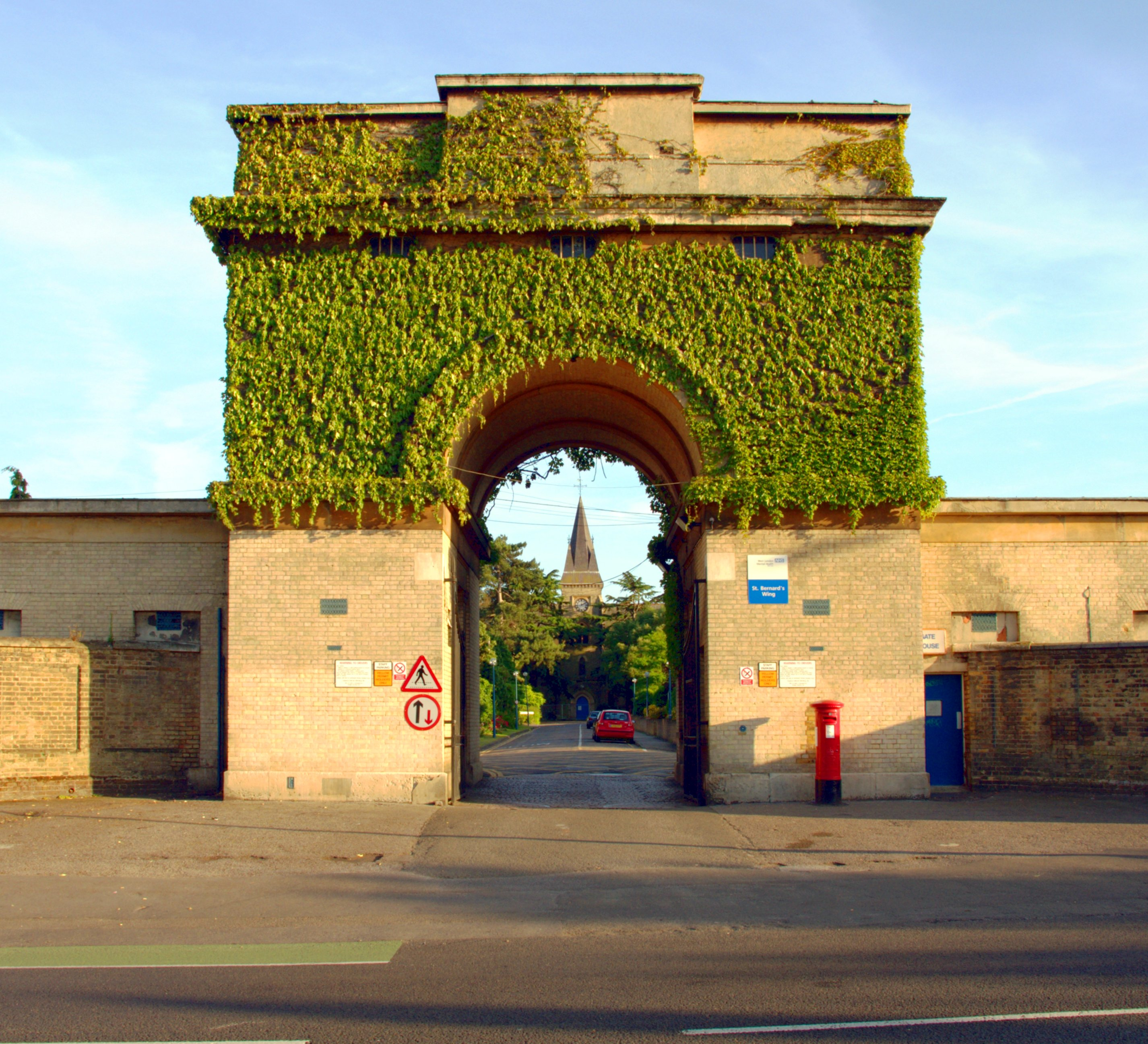 St Bernard's Hospital Gatehouse, Uxbridge Road, Southall, Middlesex, UB1 3EU Headquarters of the West London Mental Health (NHS) Trust. Opened 16th May 1831.